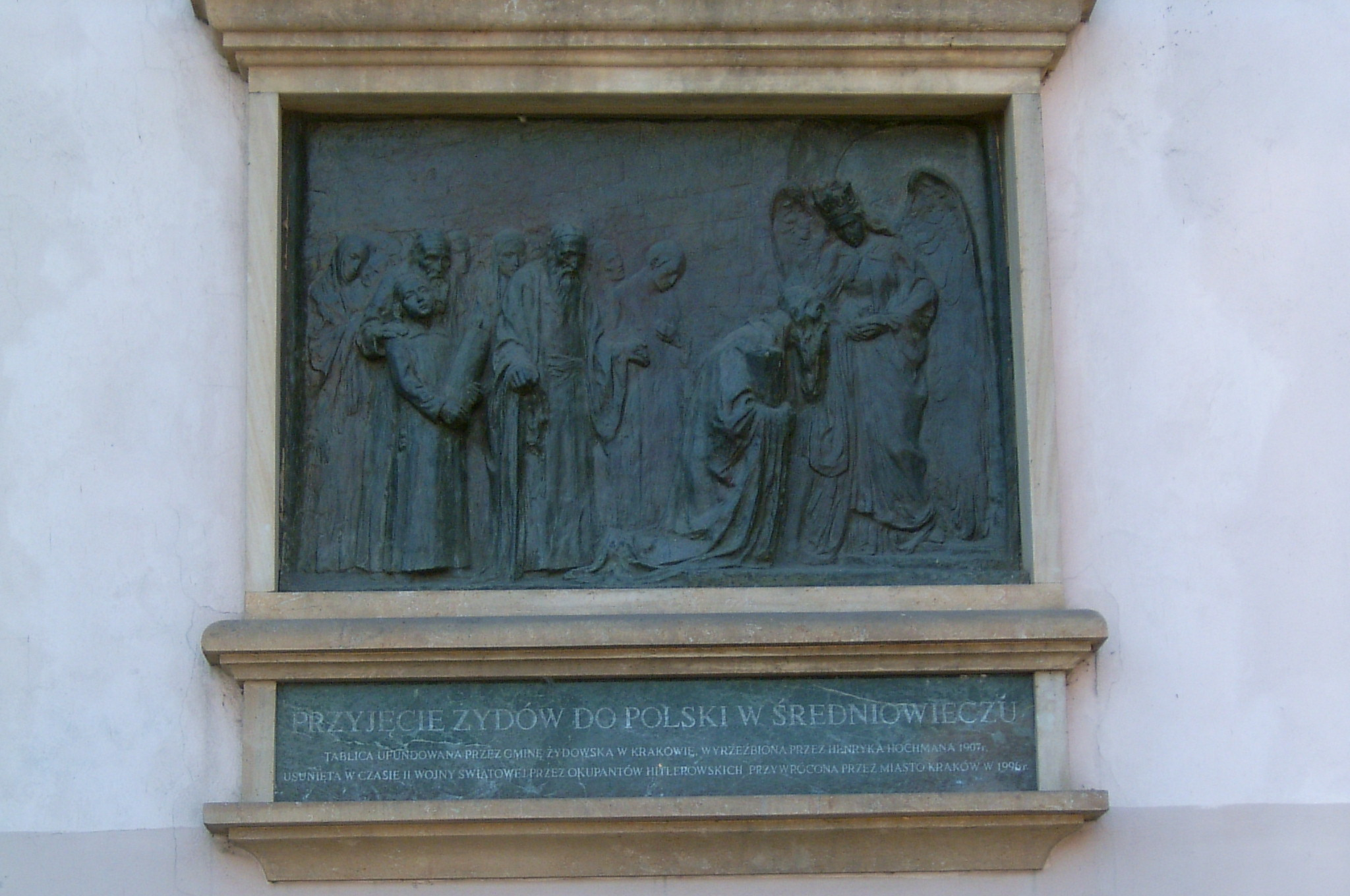 Kraków, Poland, Kazimierz Town Hall, pl. Wolnica 1. Bronze plaque Przyjęcie Żydów do Polski w średniowieczu (eng. Admission of Jews to Poland in the Middle Ages) by Henryk Hochman, probably from 1907, installed in 1996.